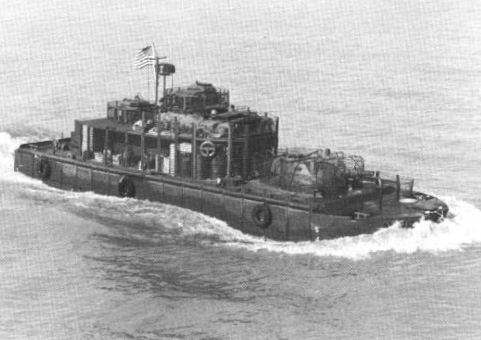 A U.S. Navy monitor, armed with a 105mm howitzer, in Vietnam, circa 1969.